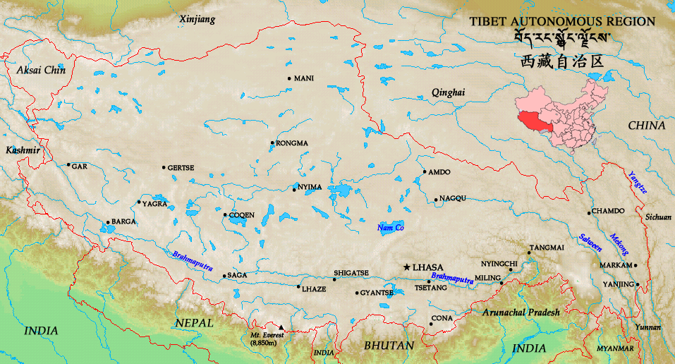 A map of the Tibet Autonomous Region, sans Arunachal Pradesh. (Tibetan version: Image:Tibetmap-bo.png)